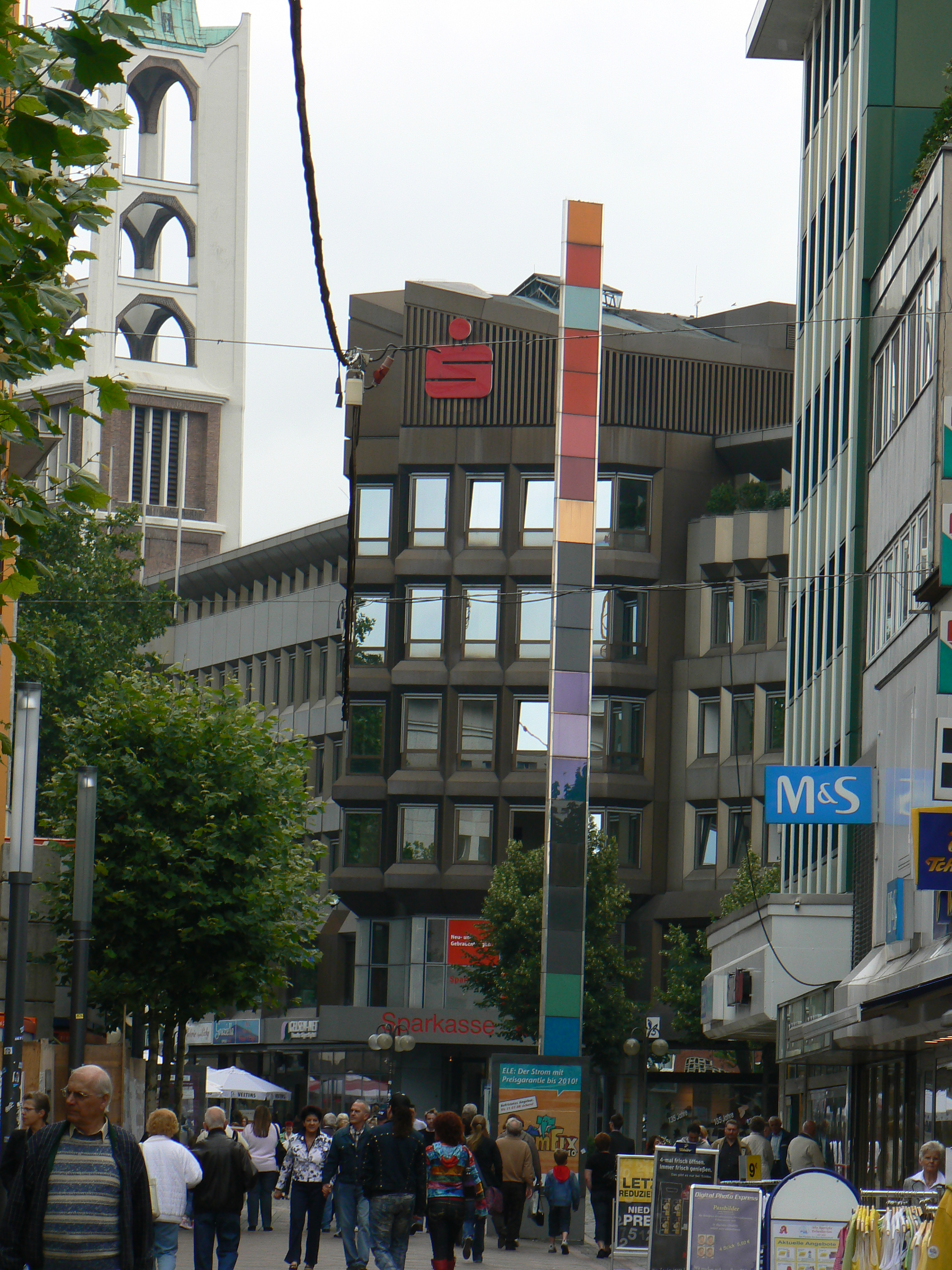 Lightsculpture Gelsenkirchener Prisma (1994) by Jürgen LIT Fischer (1941) in Gelsenkirchen/Germany